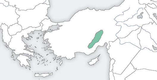 The region in green represents the ancient homeland of the Karamalindes people. They lived in the regions of Karaman and Cappadocia until the early 20th century.